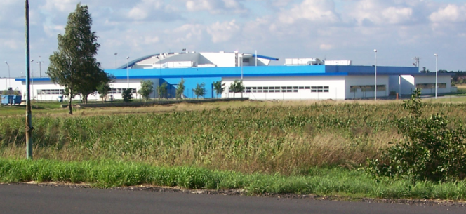 Author: Yves6 - Incubator of Enterprises & Road nr 10, Industrial Park in Solec Kujawski, Poland